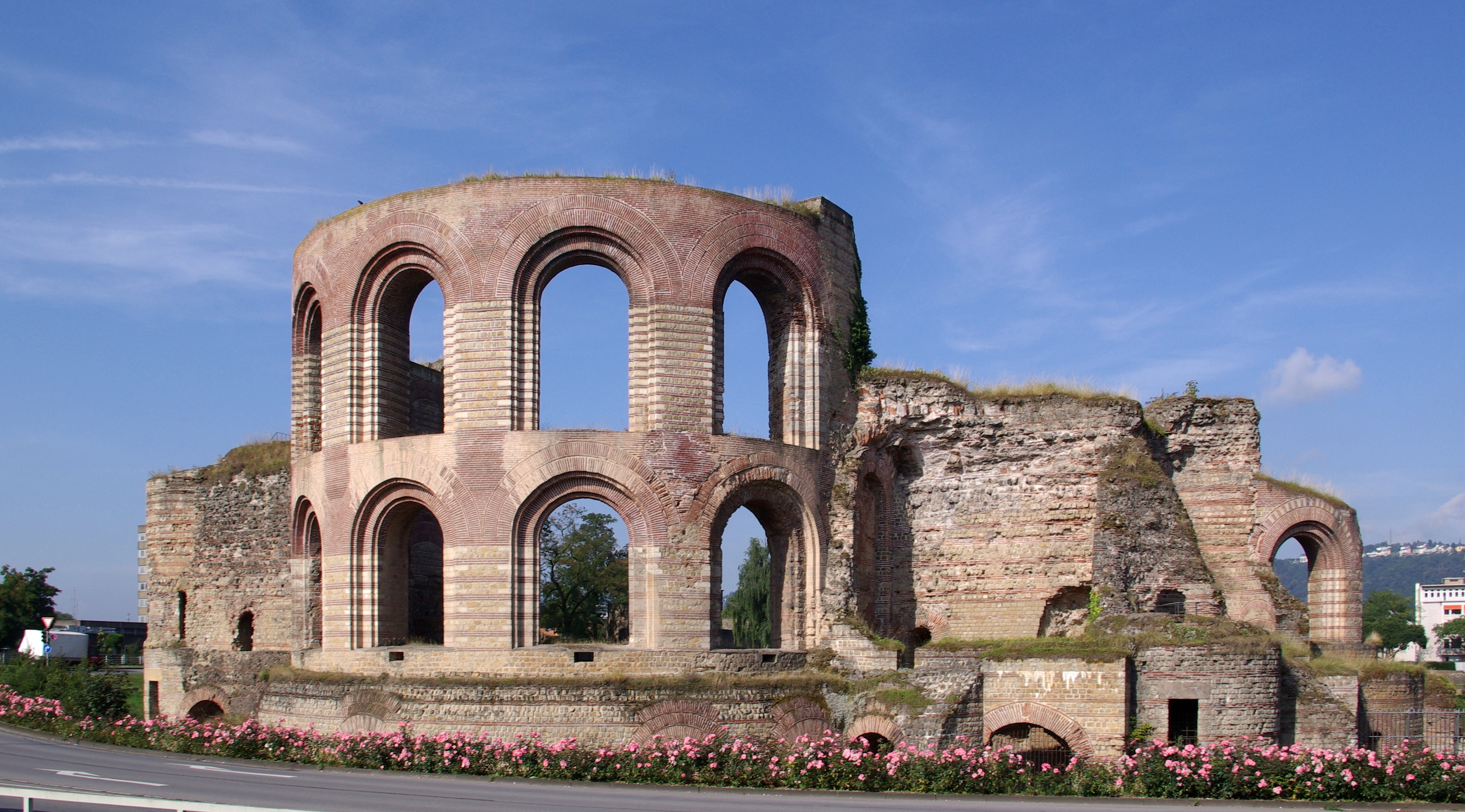 Imperial thermæ in Trier.